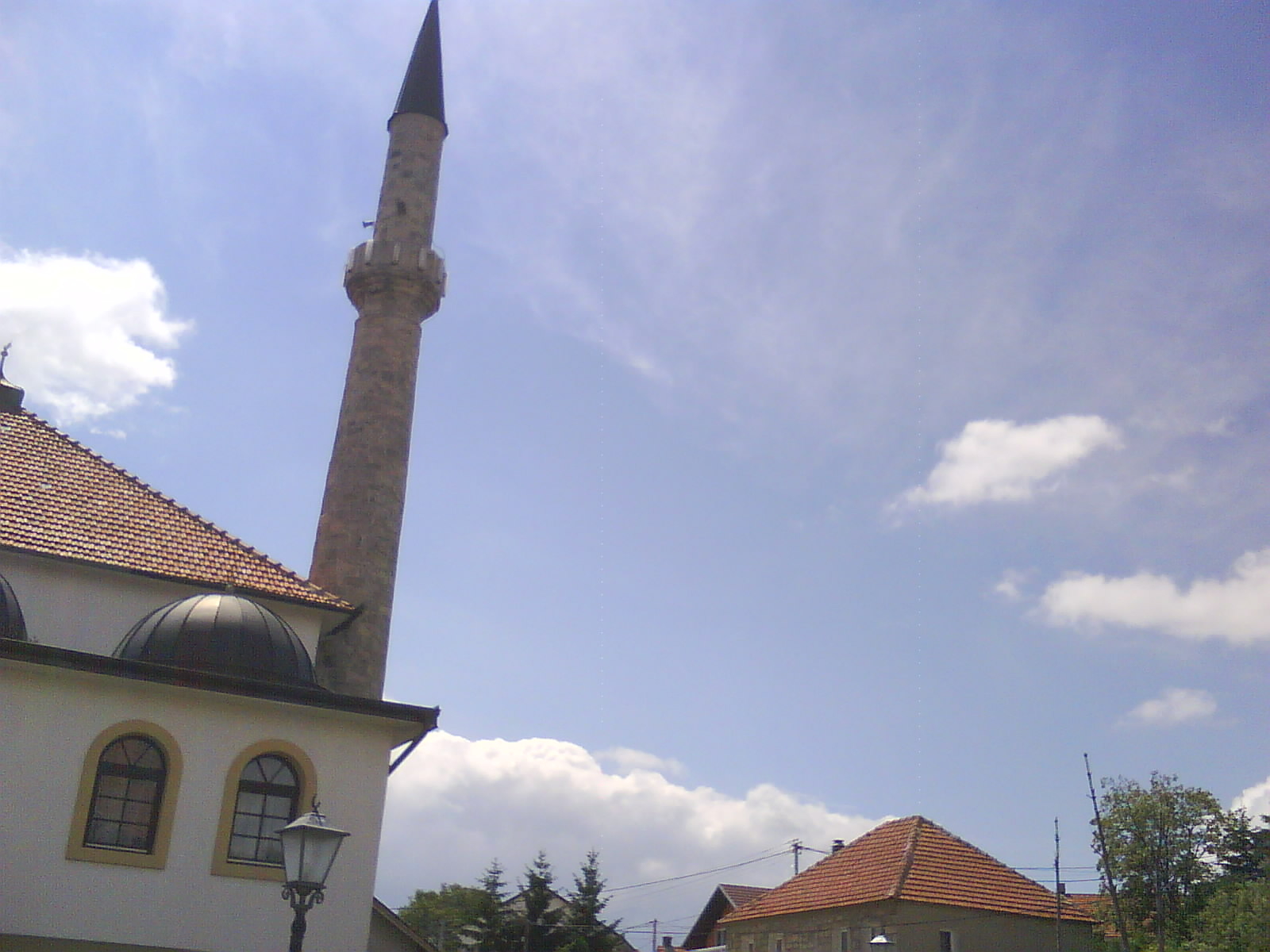 Džudža Džafer-bey Kopčić mosque in Tomislavgrad